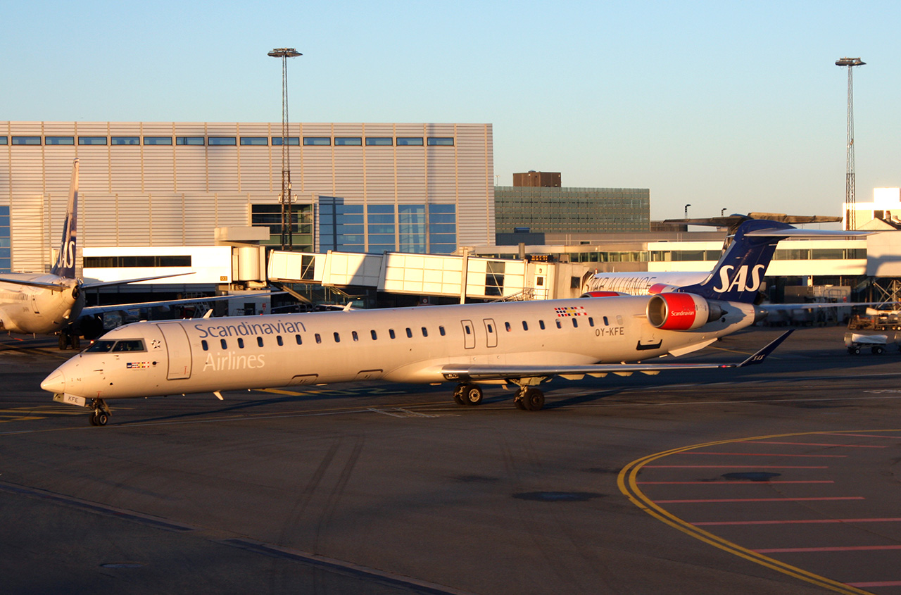 A Scandinavian Airlines Bombardier CRJ-900 at Copenhagen Kastrup.